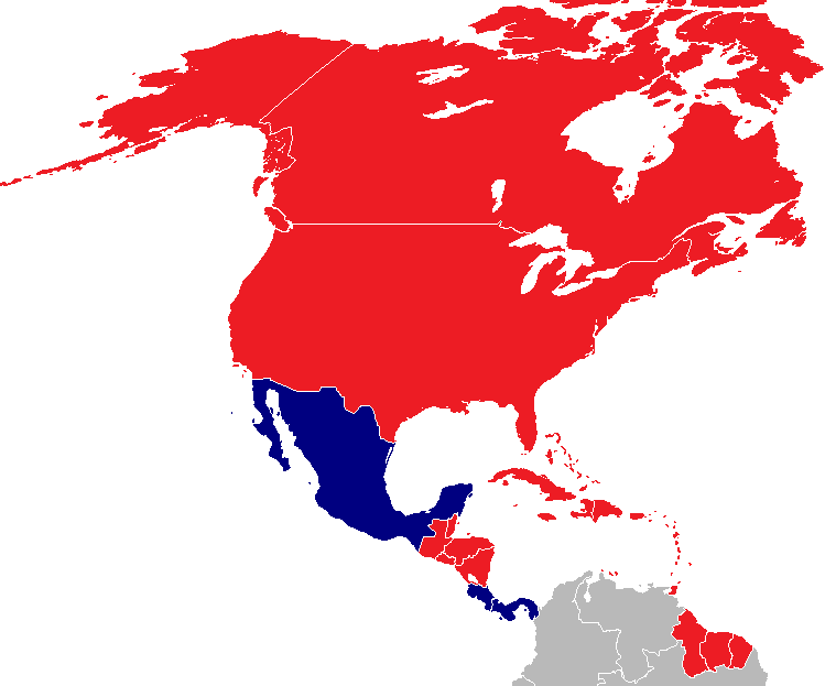 Status of countries with respect to 2018 FIFA World Cup: Team qualified Team may qualify Cannot qualify - games to play Cannot qualify - eliminated Country is not a CONCACAF member